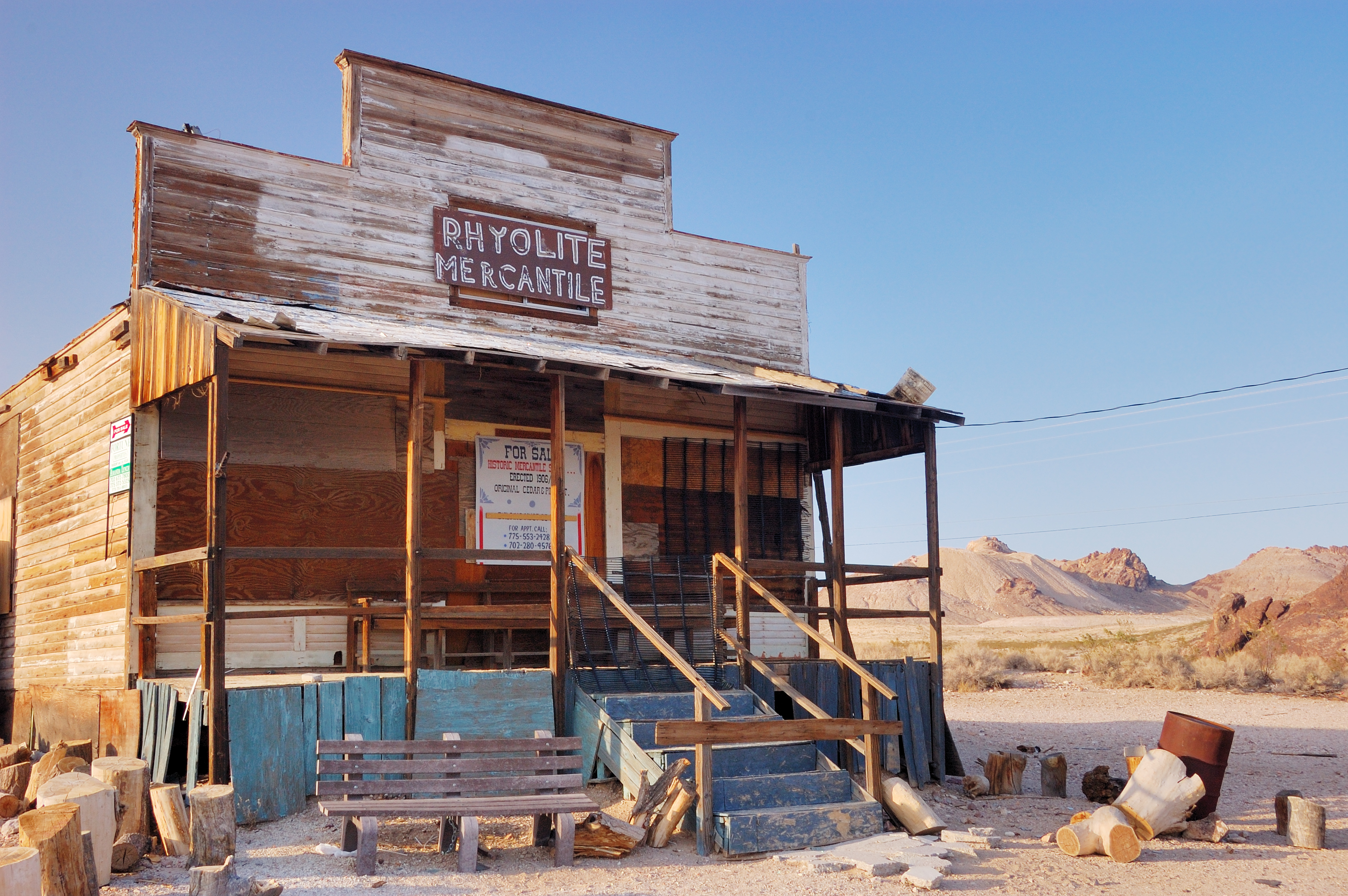 Abandoned general store in the ghost town of Rhyolite, Nevada.